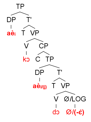 Adding the logophoric affix to the verb makes the coreferencing between the DPs have a logophoric interpretation.